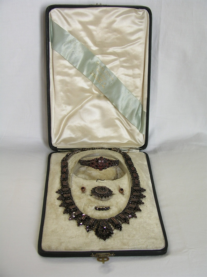 Parure consisting of diadem pair of earrings necklace brooch bracelet